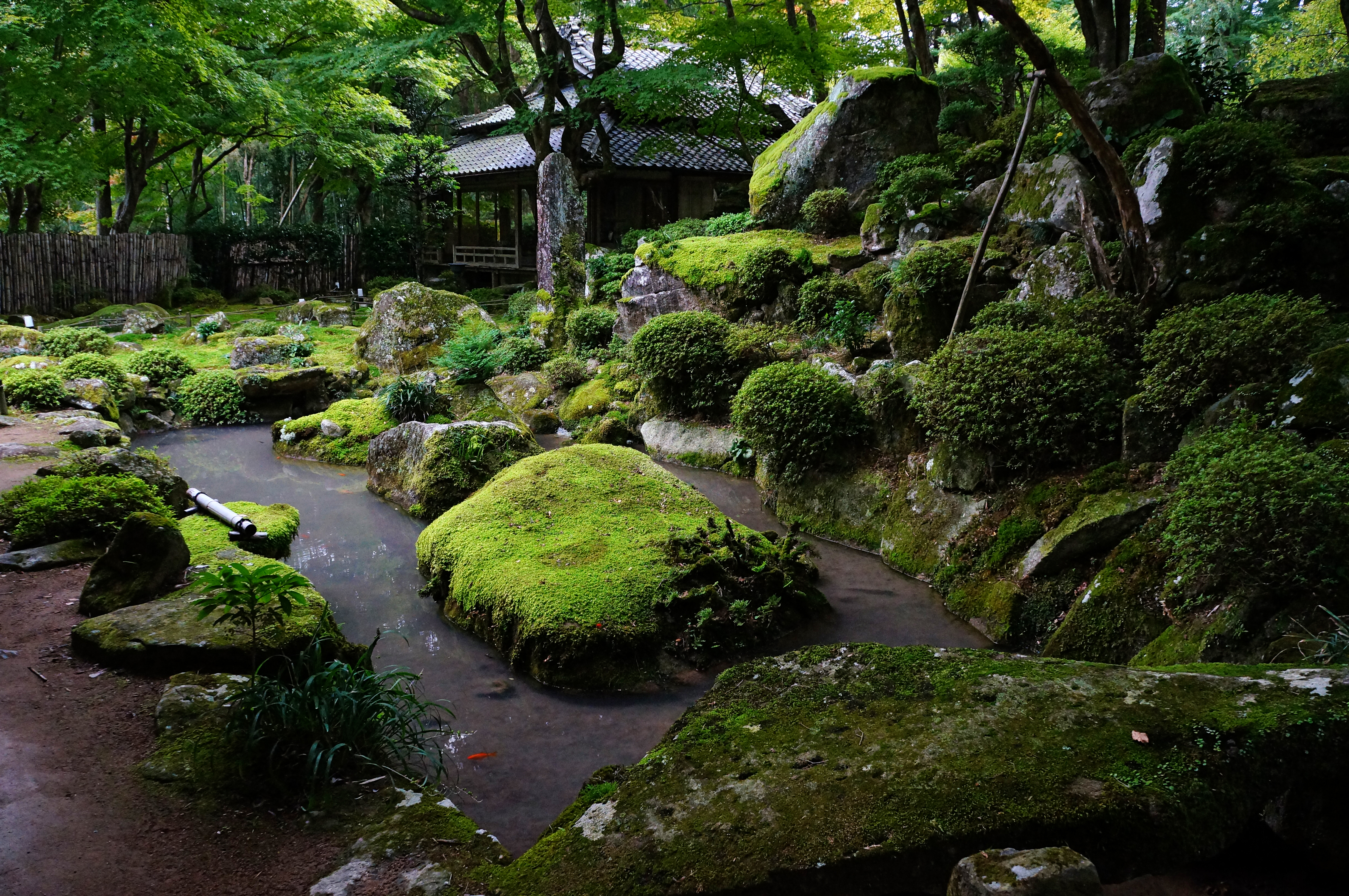 Kyorin-bo in Azuchi, Omihachiman, Shiga prefecture, Japan.